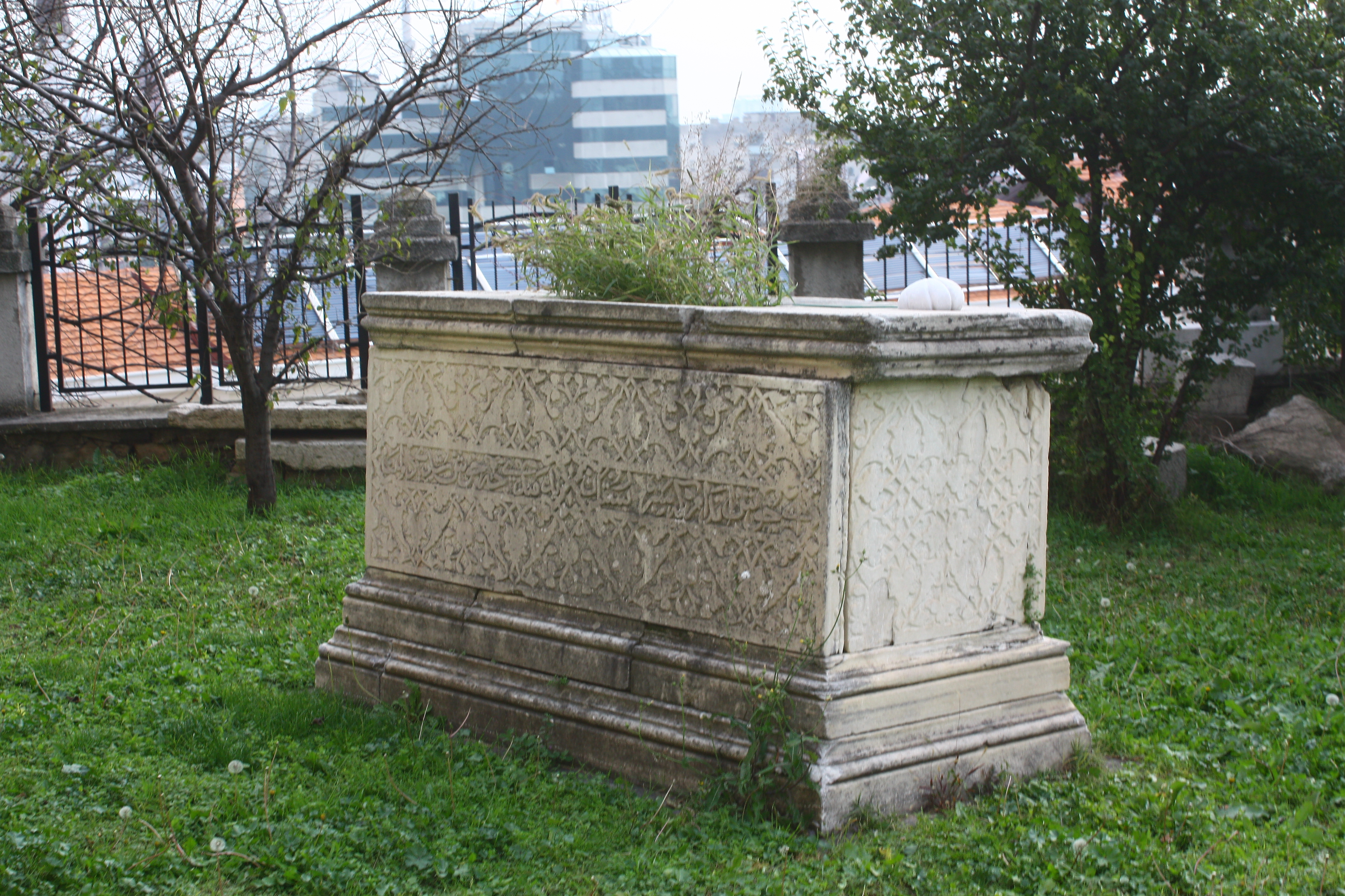 Mustafa Pasha Mosque in Macedonia Ова е фотографија на споменик на културата во Македонија со типски код: A02This is a a photo of a cultural monument in North Macedonia with type id: A02